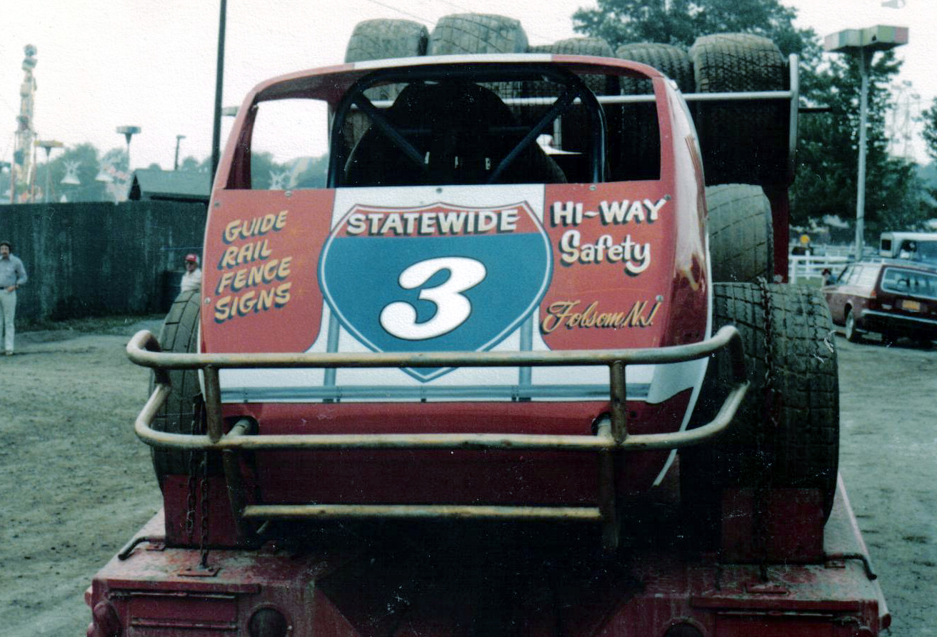 One of the all time greats, Jimmy Horton. Jimmy WON races at some of the top tracks of Nascar in the ARCA series. One of the most versatile drivers in Northeast racing history .Great paint job on the back of the Statewide #3.